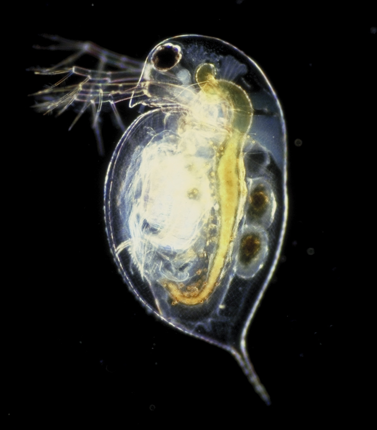 Daphnia pulex, a species waiting in the wings to achieve “Model” Status.